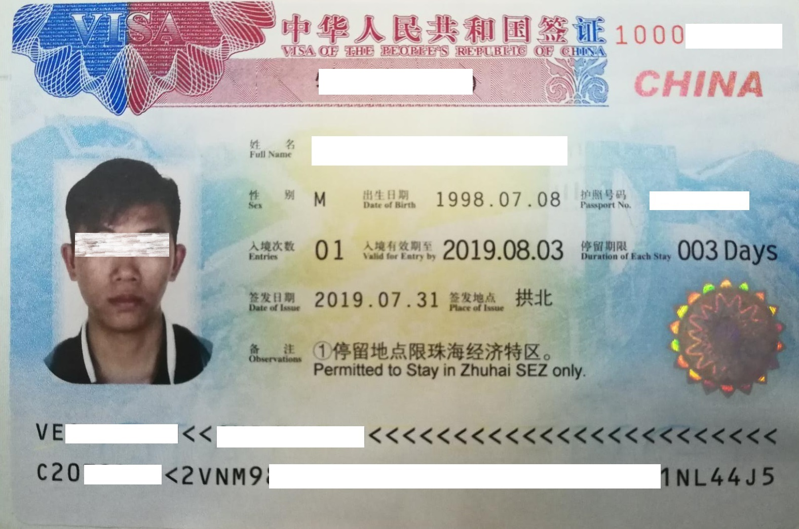 Special Economy Zone Tourism visa of the People's Republic of China, which started to issue from June 1, 2019. The visa is issued by visa office of Gongbei Port, Zhuhai, noted "Permitted to Stay in Zhuhai SEZ only.", and valid for 3 days. 中文（中国大陆）: 2019年6月1日起签发的新版中华人民共和国经济特区旅游签证，由珠海拱北口岸签证处签发，注明“停留地点仅限珠海经济特区”，停留期为3天。